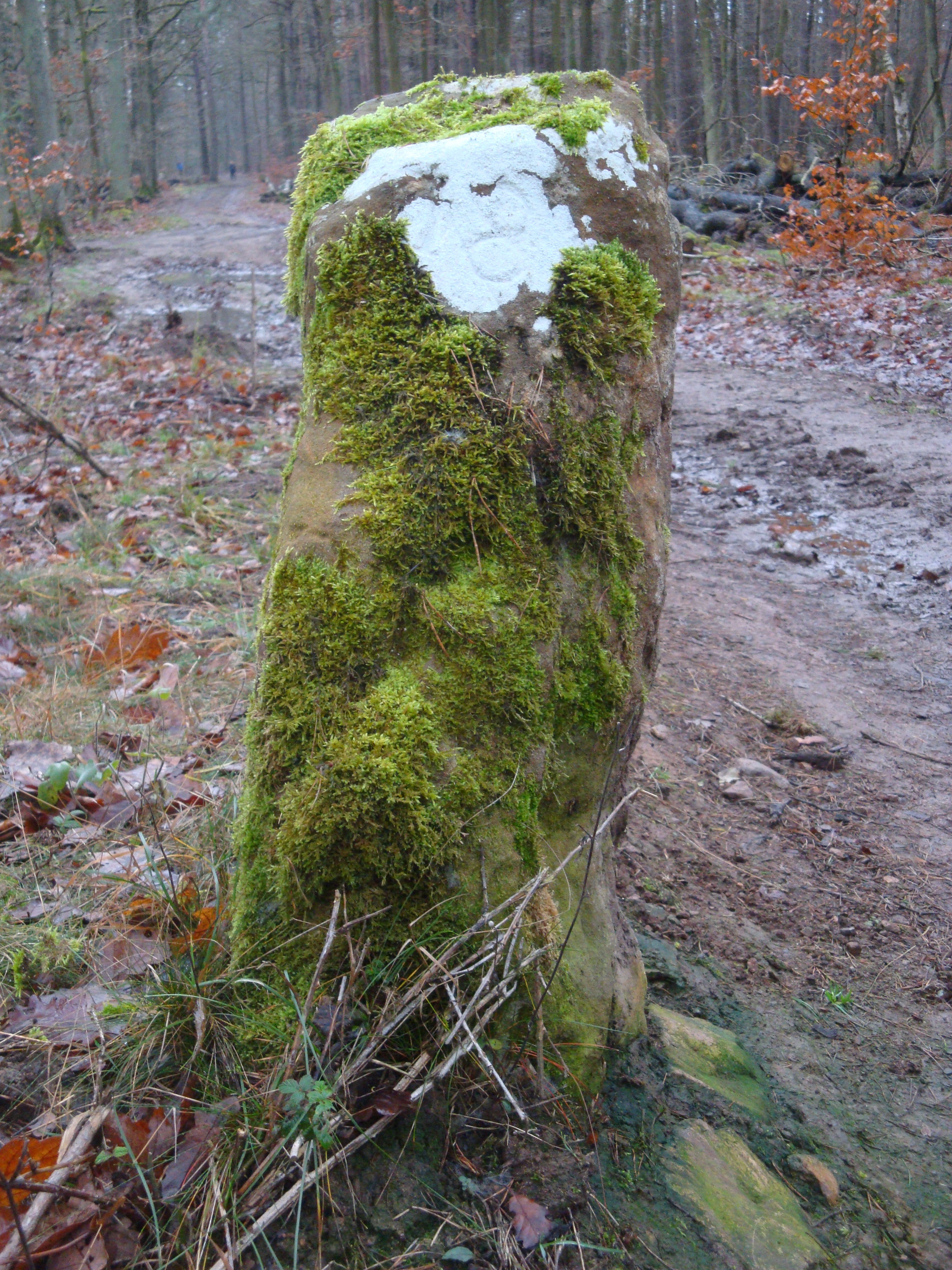 Standing Stone ( Menhir ) Known by the name ː Der lange Mann